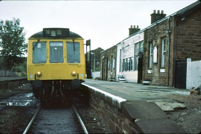 Kilmacolm railway station Original description: Kilmacolm station platform 1979 The driver was more than happy for me to take this photo: I was the only passenger and he wanted someone to talk to! Surprisingly, the station ticket office was still fully manned.